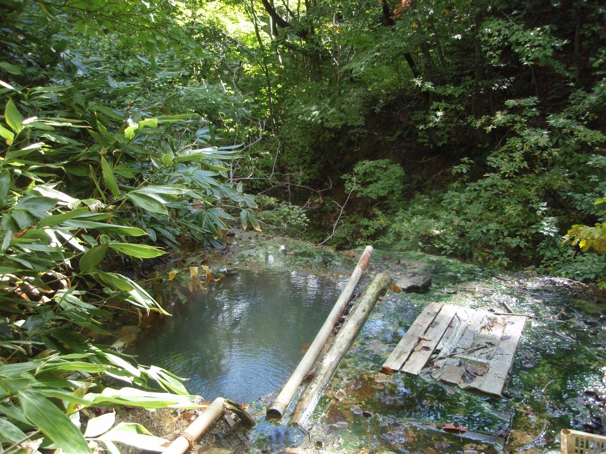 Shiriuchi spa Tenbou no yu in Shiriuchi, hokkaido.